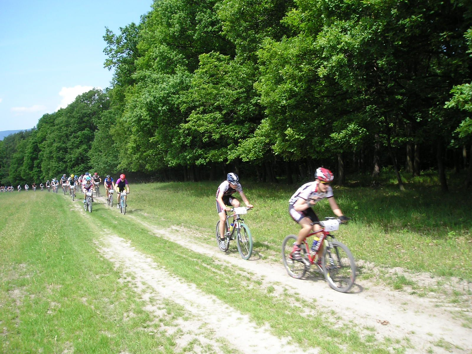 CYKLOMARATÓN-ska MTB séria - Maratón Slovaktual - Pravenec